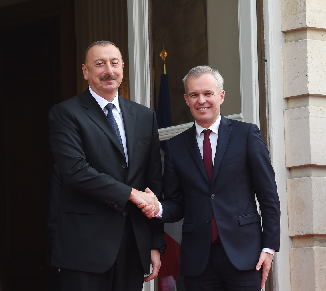 President Ilham Aliyev met with president of French National Assembly in Paris